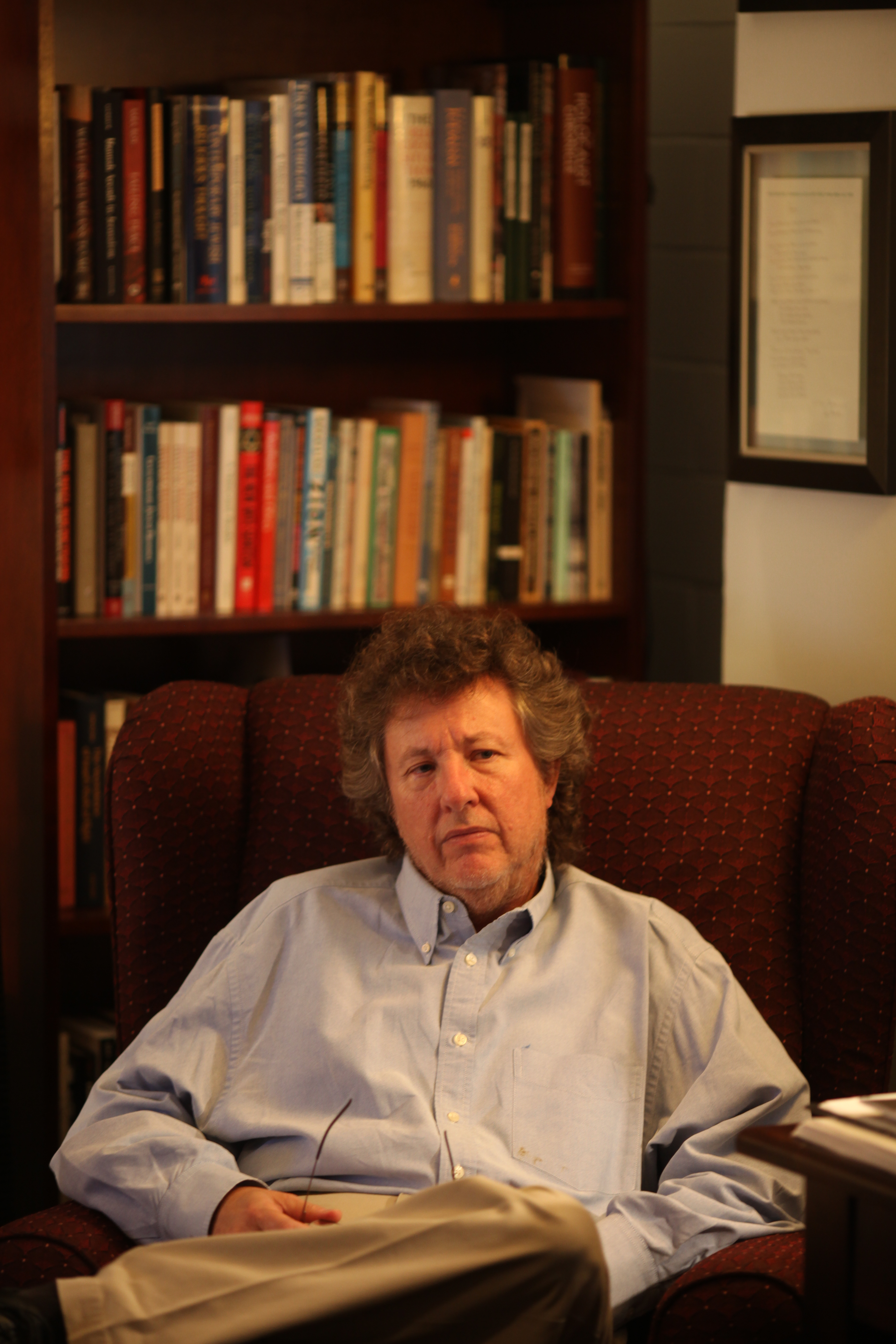 Author K.P